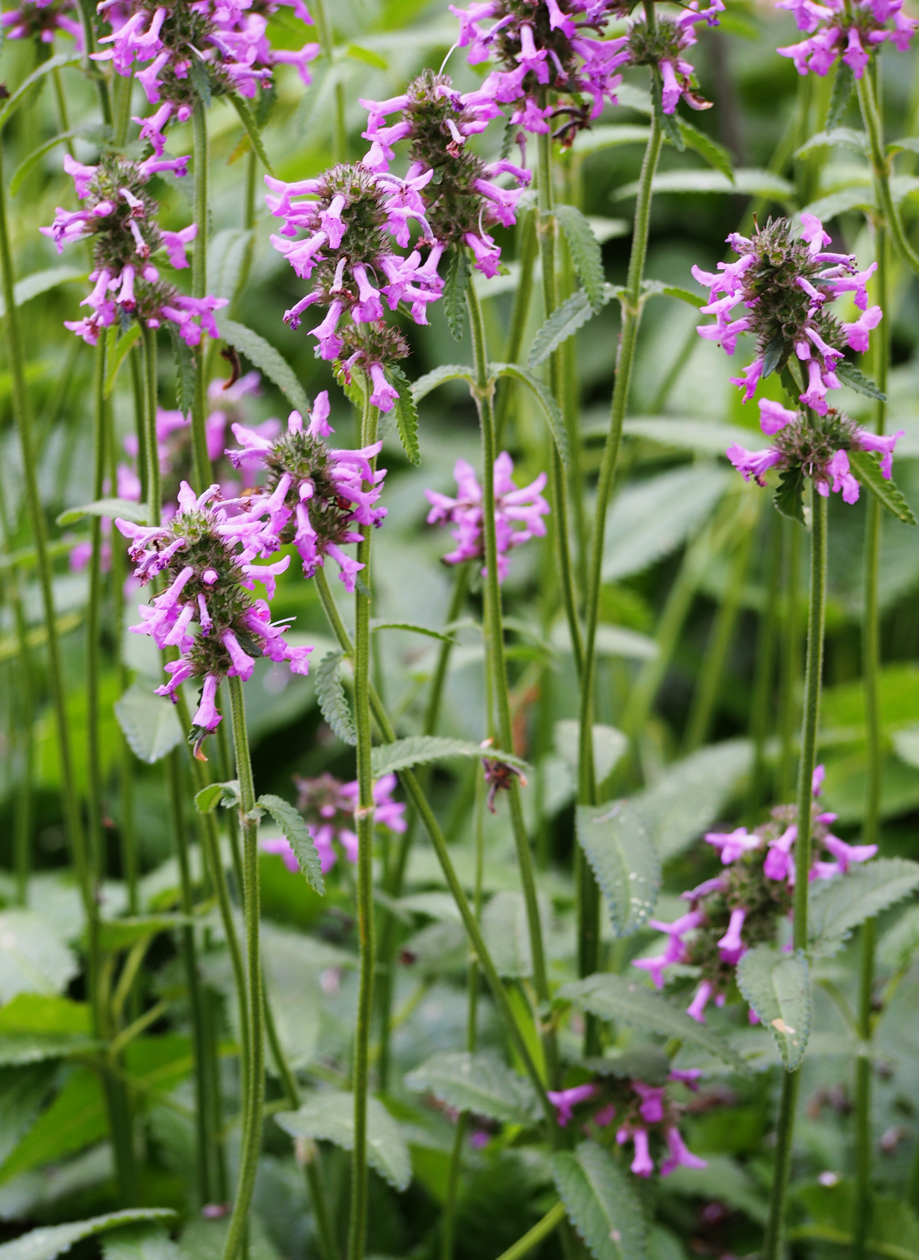 Stachys officinalis (syn. Betonica officinalis), flowering plants, cultivated in Wrocław Universiy Botanical Garden, Wrocław, Poland.